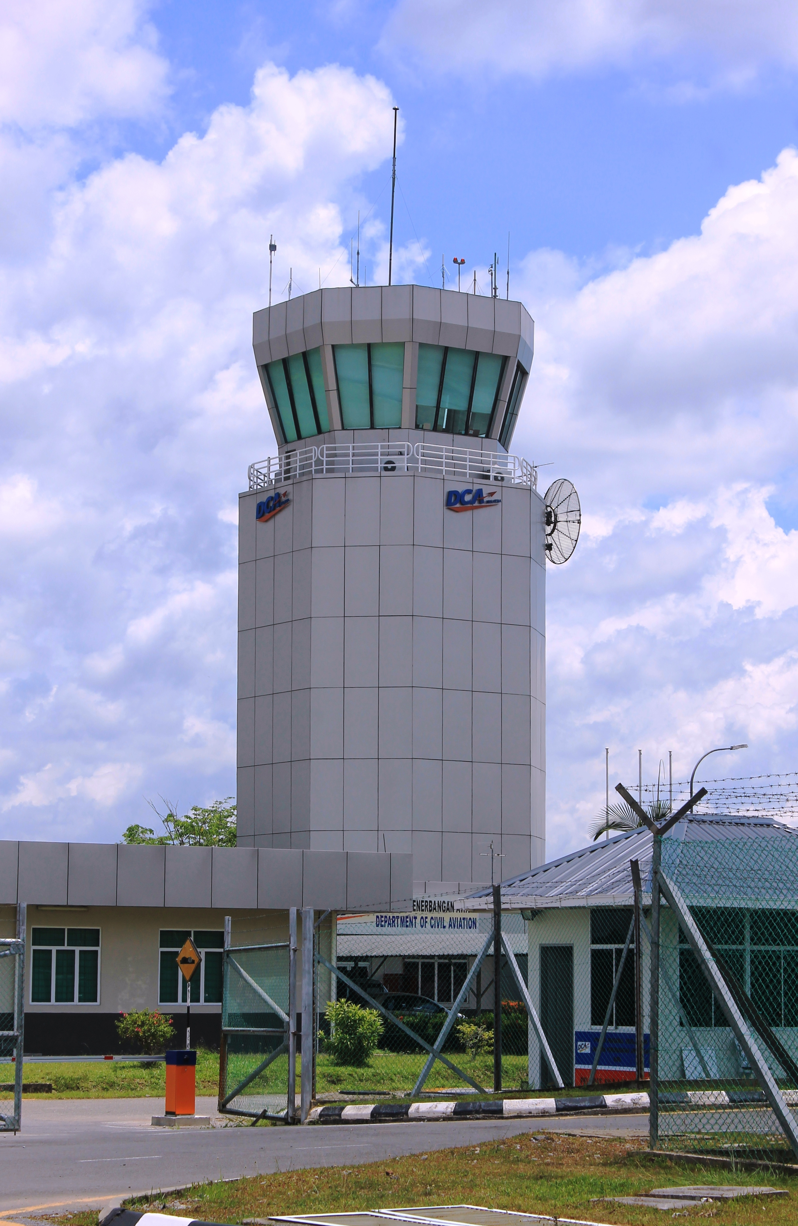 The Sibu Airport Control Tower. DCA (Department of Civil Aviation, Malaysia) logo can be seen printed on the left upper side of the tower.